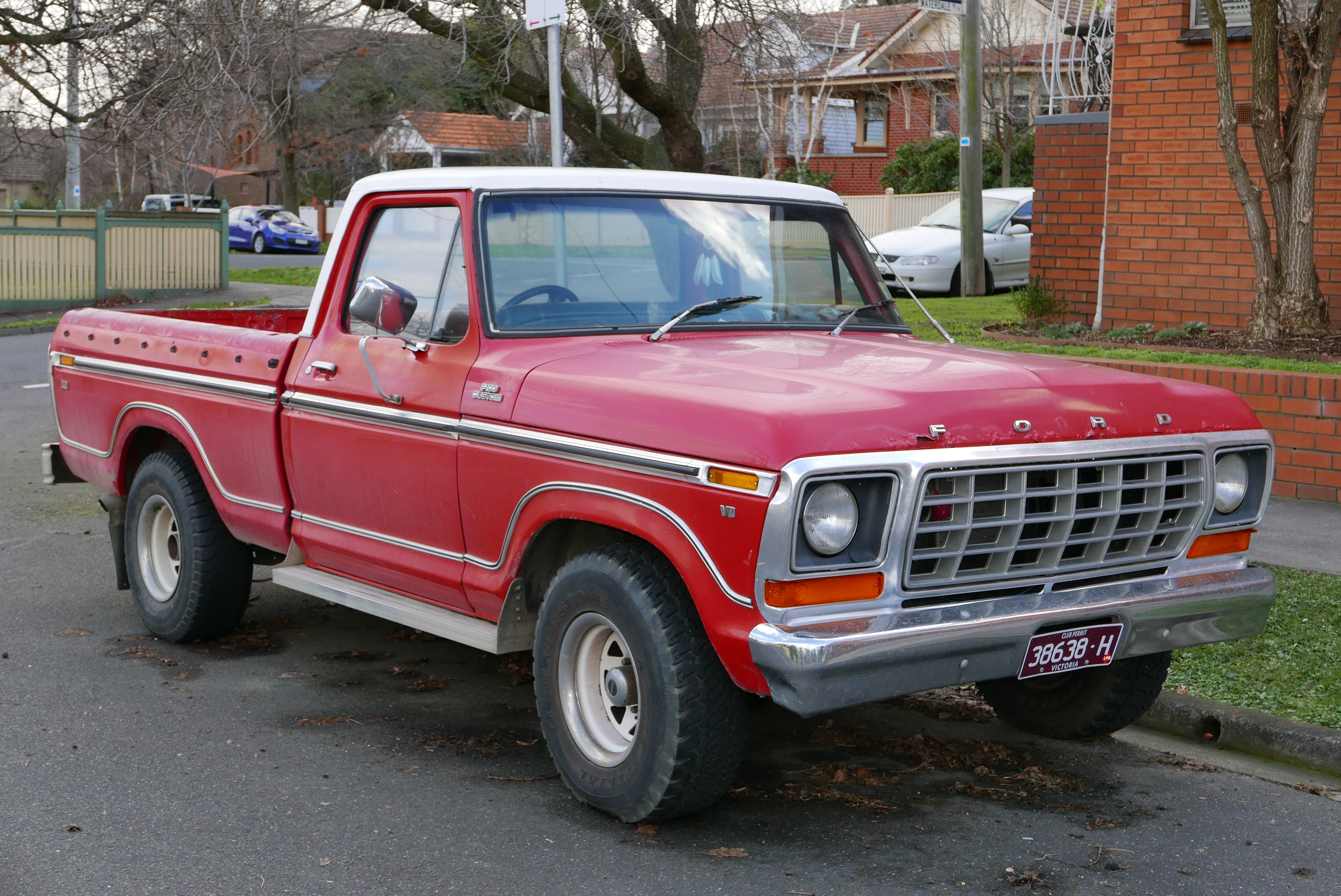 1978–1979 Ford F100 Custom XLT 2-door utility. Photographed in Ivanhoe, Victoria, Australia.